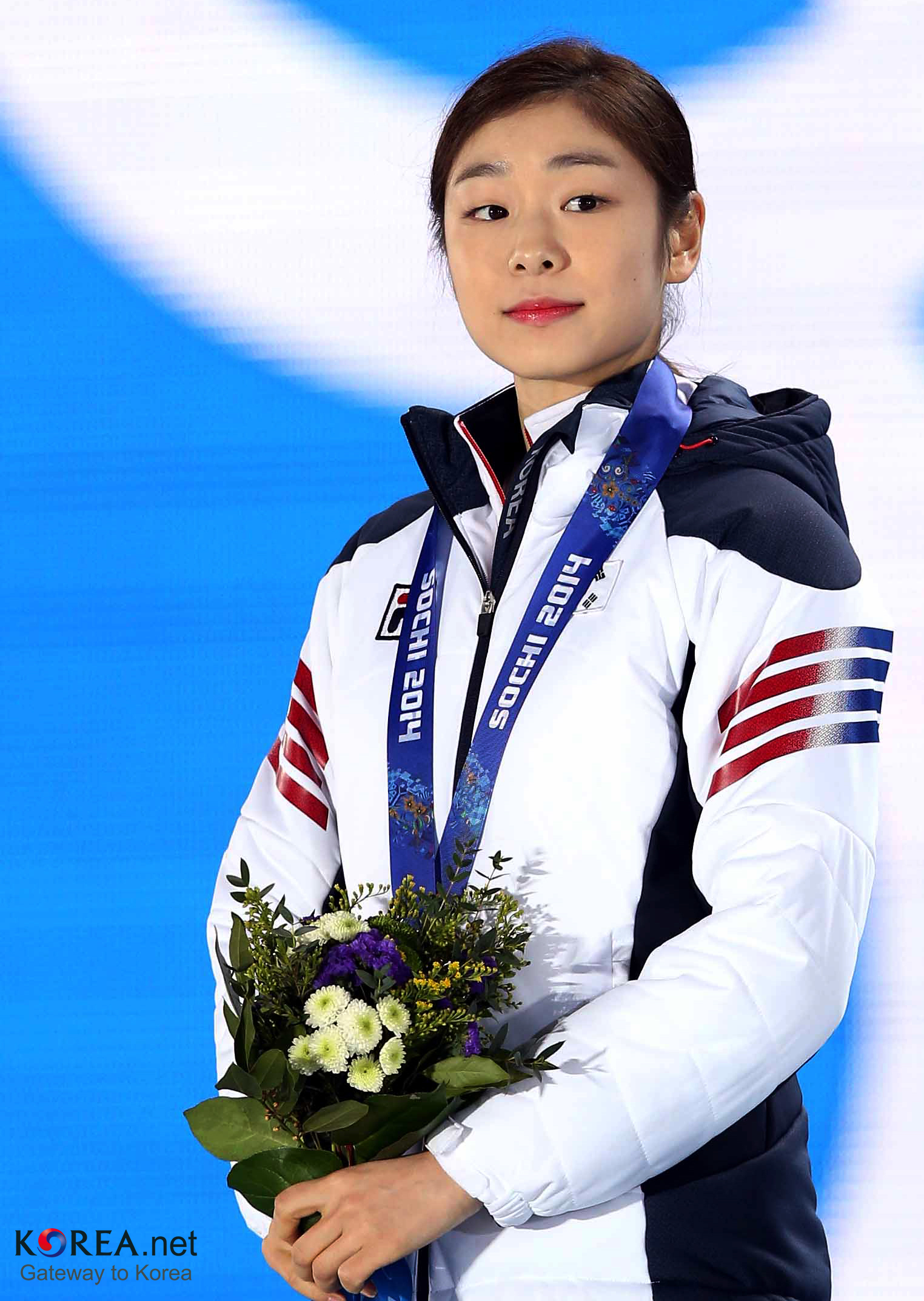 Yuna Kim, 2014 Sochi Winter Olympic Games, Ladies Figure Skating Medal Ceremony.